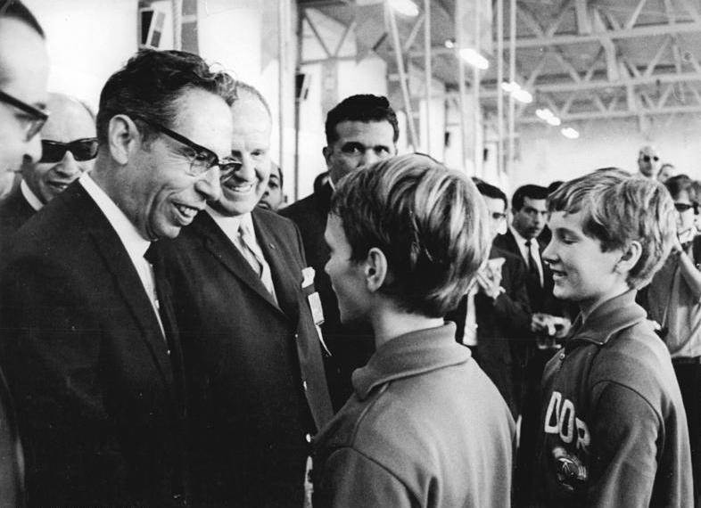 Mexican president Gustavo Díaz Ordaz (left) with two gymnasts from the former German Democratic Republic, Karin Büttner-Janz and Marianne Noack, during a pre-Olympic sports competition held in Mexico City in 1967.